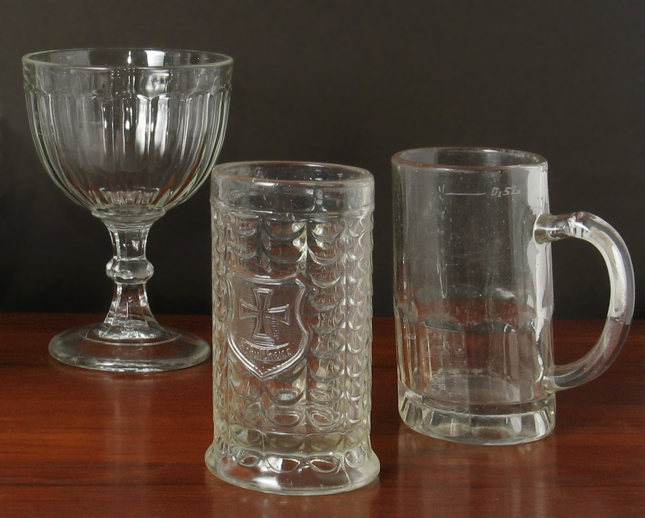 pieces of pressed glass, dated around 1900